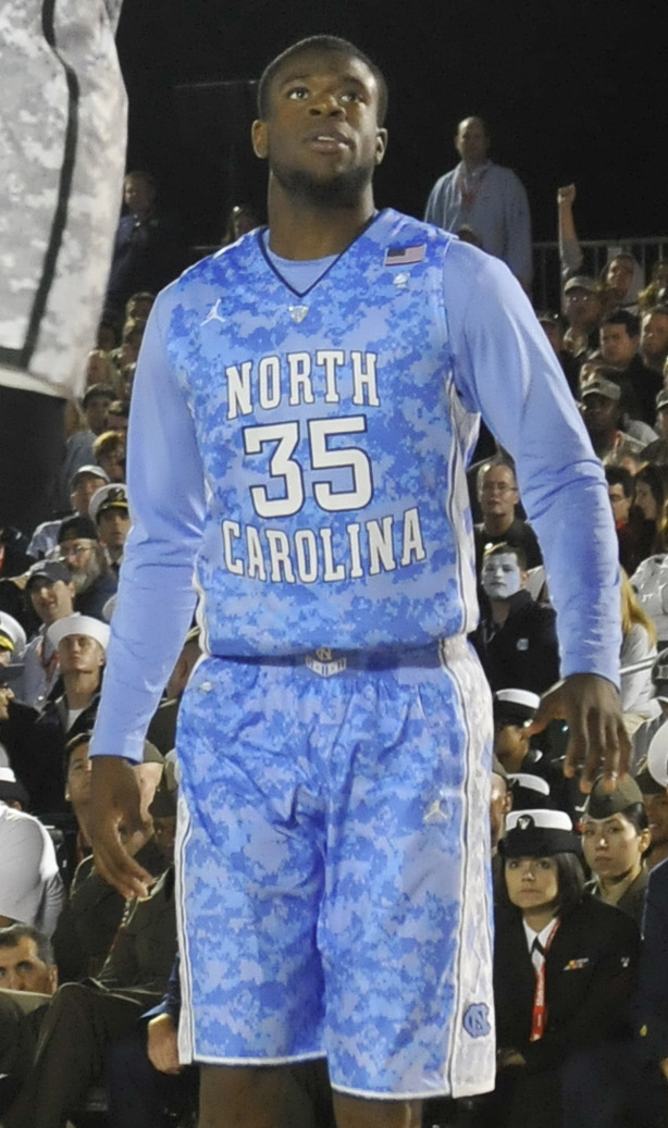 SAN DIEGO (Nov. 11, 2011) Michigan State University center Adreian Payne scores against the University of North Carolina during the Quicken Loans Carrier Classic basketball game aboard the Nimitz-class aircraft carrier USS Carl Vinson (CVN 70). The inaugural Carrier Classic is a celebration of Veterans Day. ((U.S. Navy photo by Mass Communication Specialist 3rd Class Roza Arzola/Released)